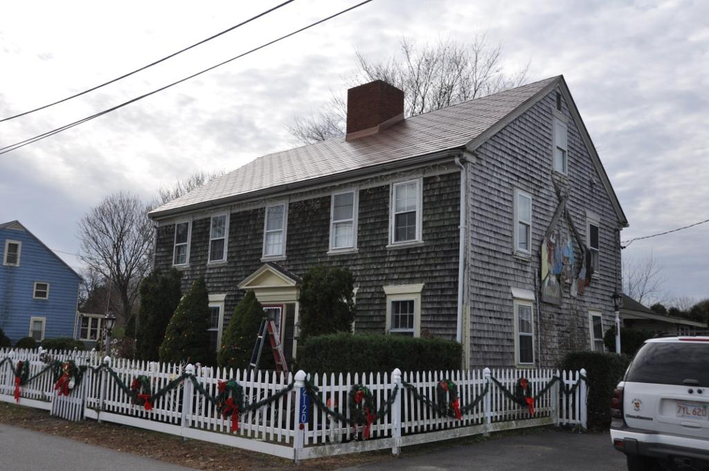 2120 Water Street, Dighton, Massachusetts, part of the Coram Shipyard Historic District.